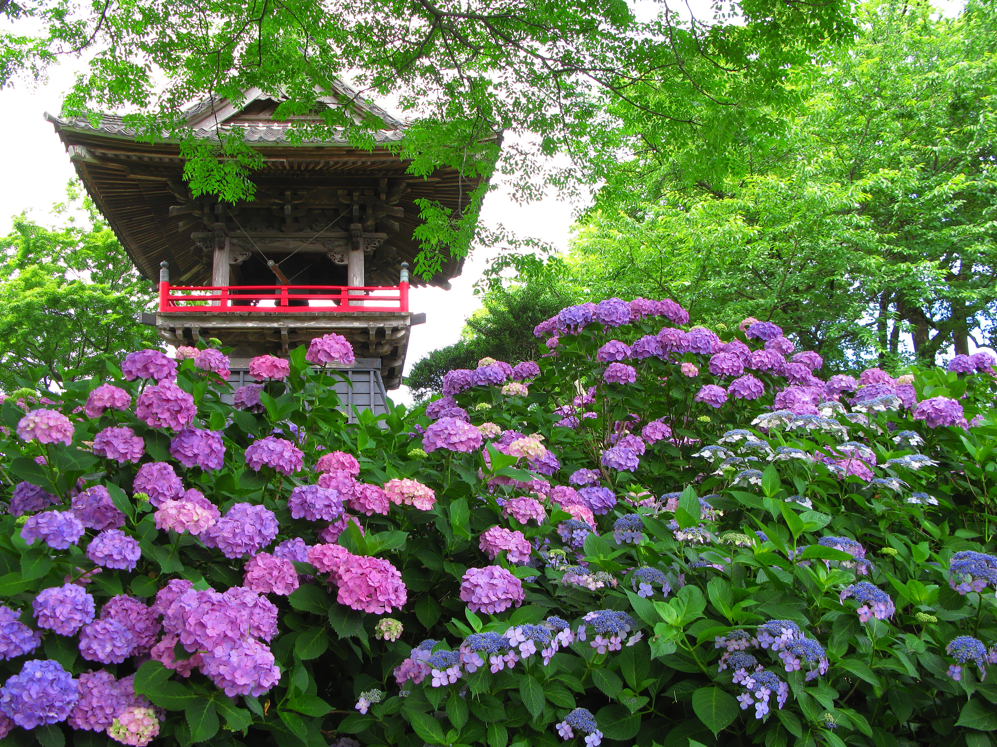 Kumagawa temple in Hydrangea.